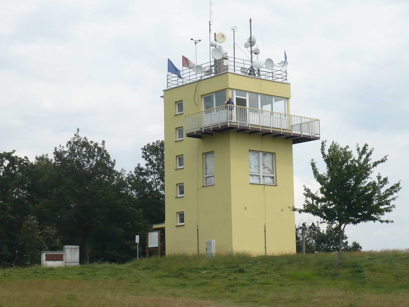 Zlobice Observation tower, near Kuřim, Czech Republic